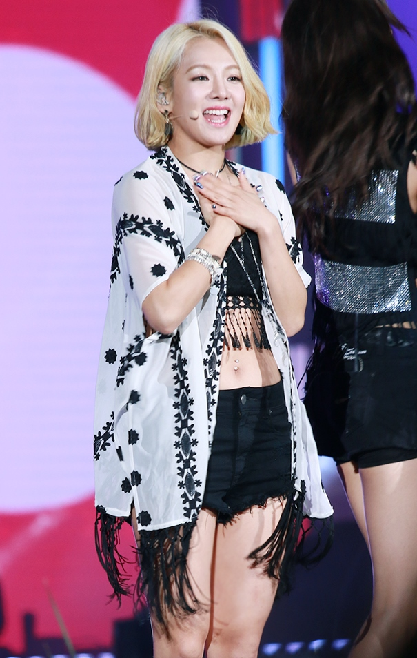 Hyoyeon at MBC DMZ Peace Concert on August 14, 2015.